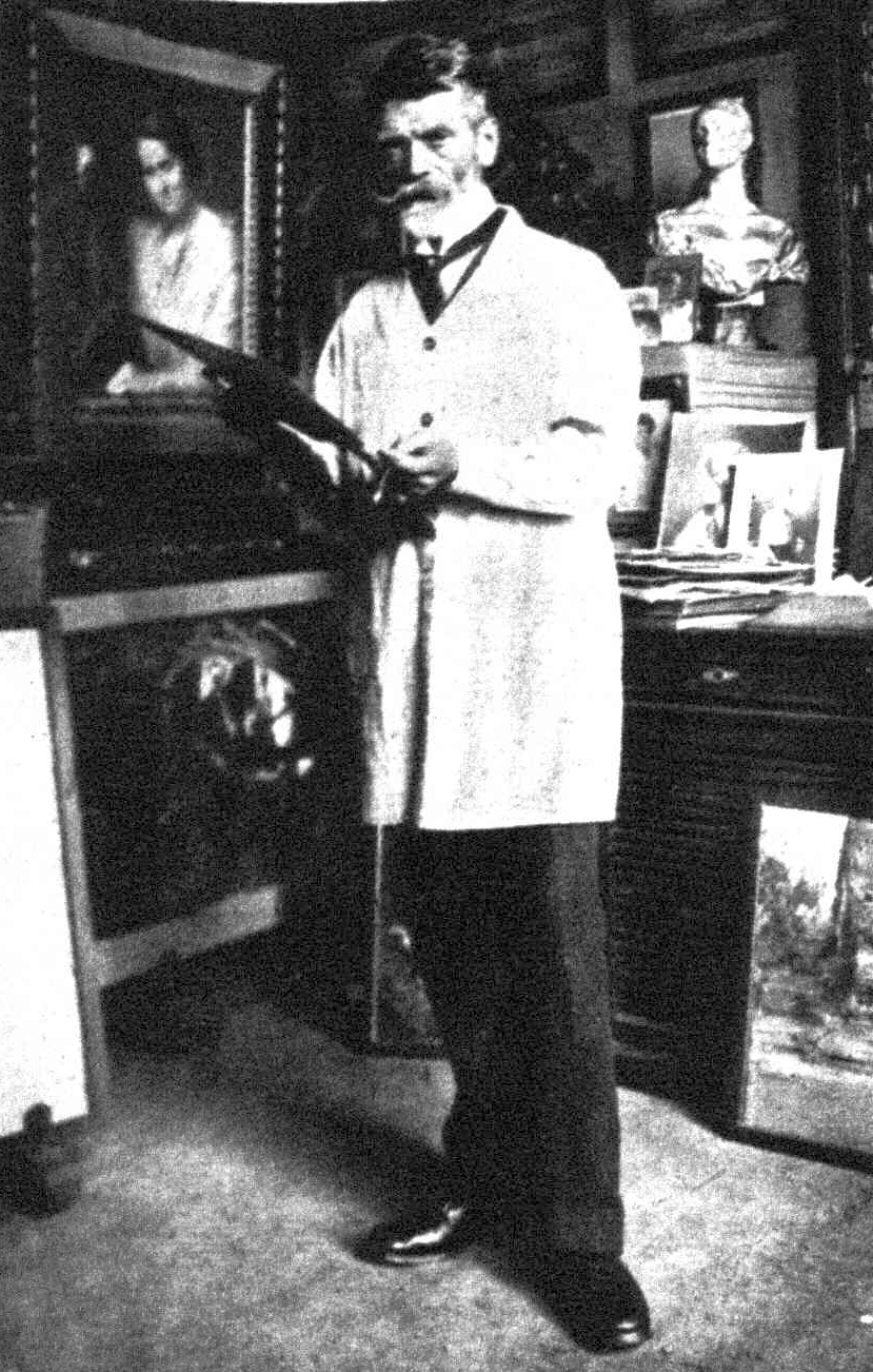 Ludwig Michalek (1859–1942), Austrian painter, graphic artist and engraver.